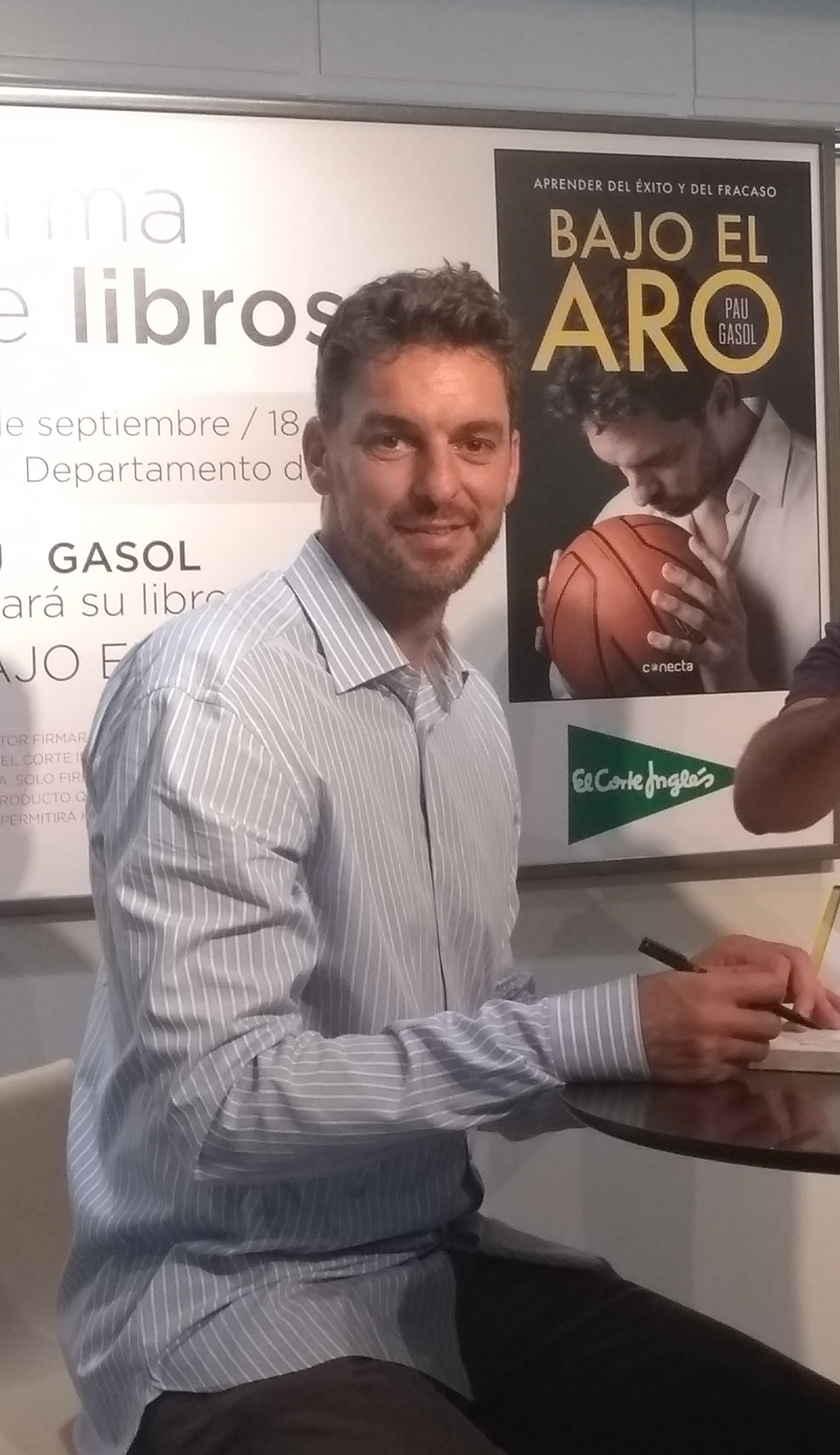 Pau Gasol during the presentation of his book "Bajo el aro" in September 2018